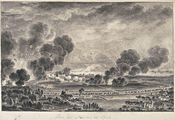 Siege of Madras in 1746 for troops Joseph Francois Dupleix and the vessels of Bertrand-François Mahé de La Bourdonnais. The city will be made to the British in 1748 after the War of Austrian Succession.